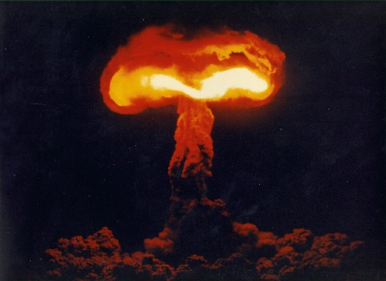 Operation Plumbbob, HOOD Event - The HOOD Event, was conducted at the Nevada Test Site on 5 July 1957, it was a 74-kiloton device exploded from a balloon.